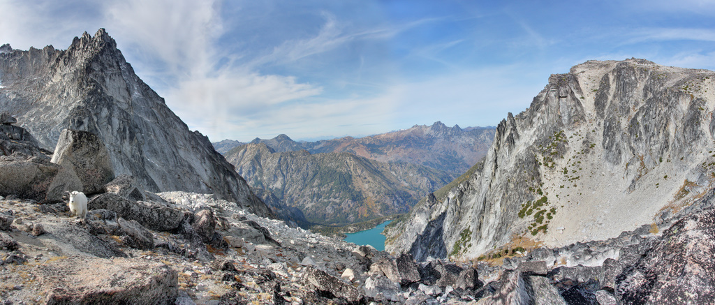 Aasgard Pass. Enchantment Lakes trip, October 17-19, 2008.